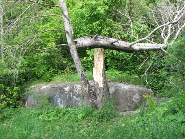 Pillbox 552 (Kyiv Fortified Region)